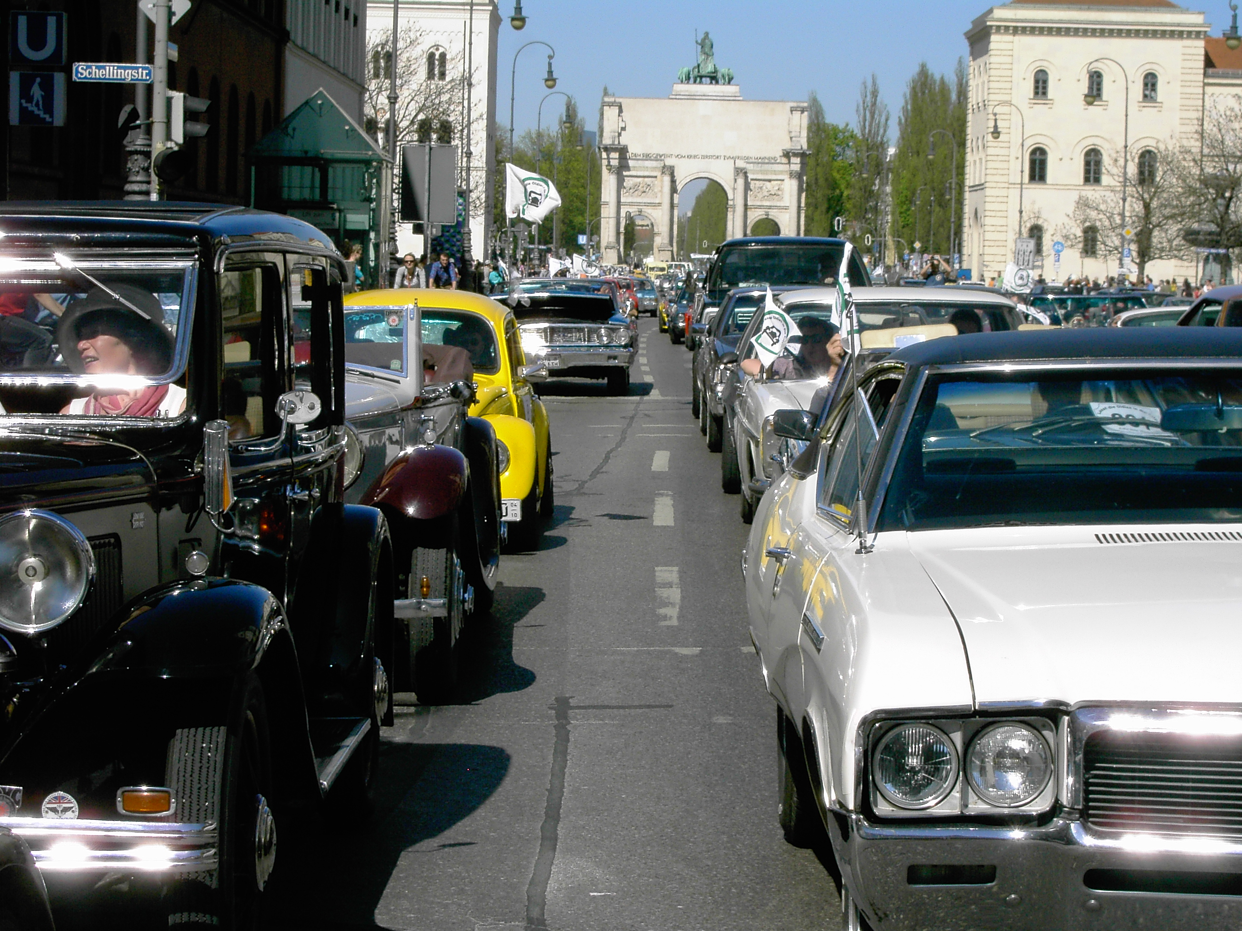 Initiative Kulturgut Mobilität (IKM) Day of action, April 15'th 2007